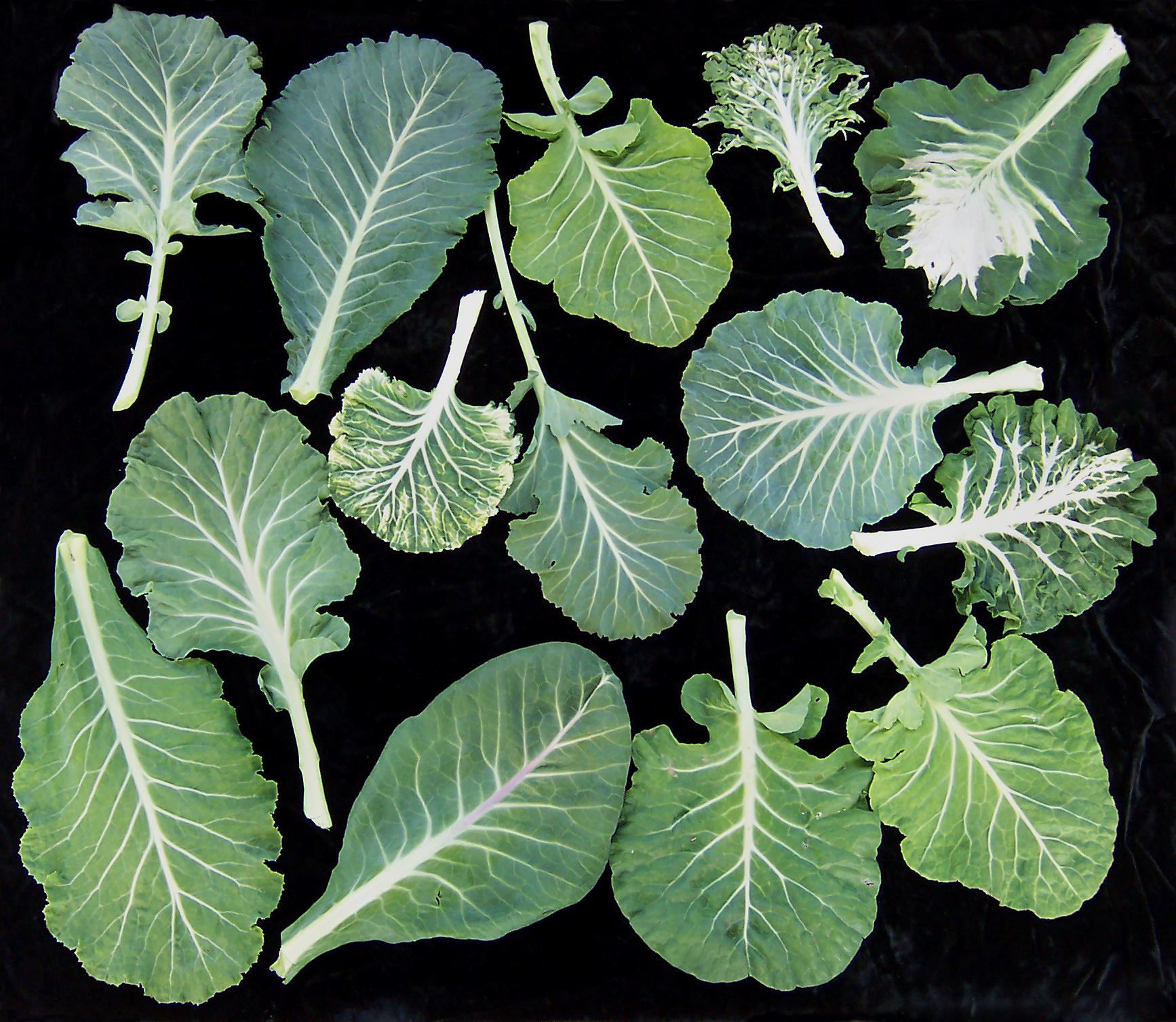 Zitat USDA "A sampling of leaves from different Carolina collard landraces clearly shows leaf variation among them." (Brassica oleracea)